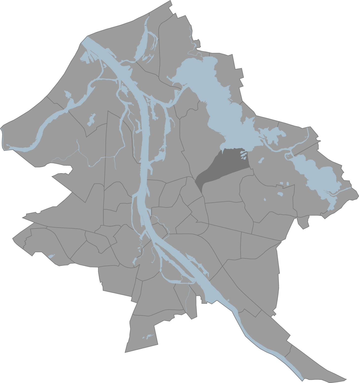 A map of Riga, Latvia with the eponymous commune highlighted